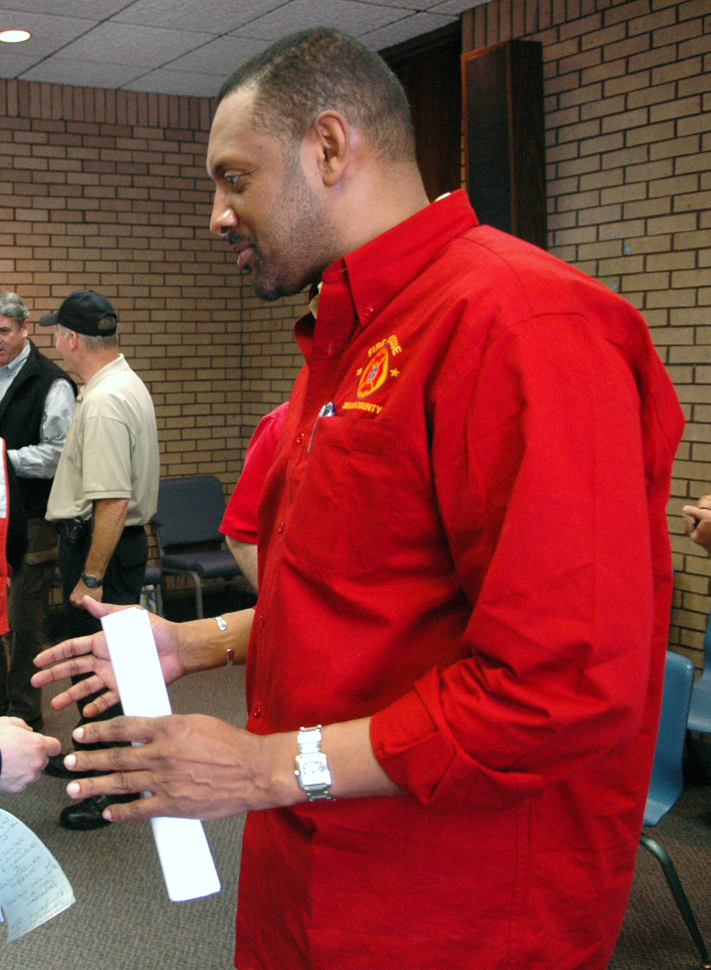 Crop of "Americus, GA, March 8, 2007 -- FEMA Public Information Officer (PIO) Rita Egan (left) speaks with Vernon Jones Dekalb County, Ga. CEO. Mr. Jones has provided Dekalb County resources to Americus to help with the recovery from the Georgia tornadoes. Mark Wolfe/FEMA"